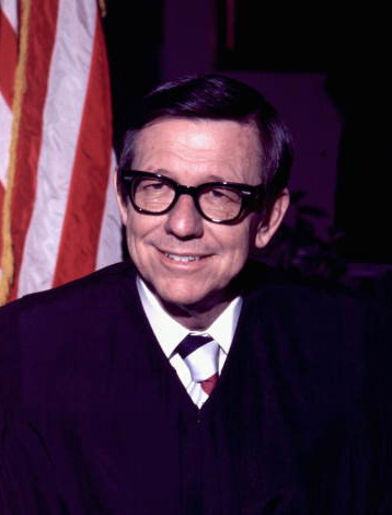 Justive Frederick B. Karl, Florida Supreme Court